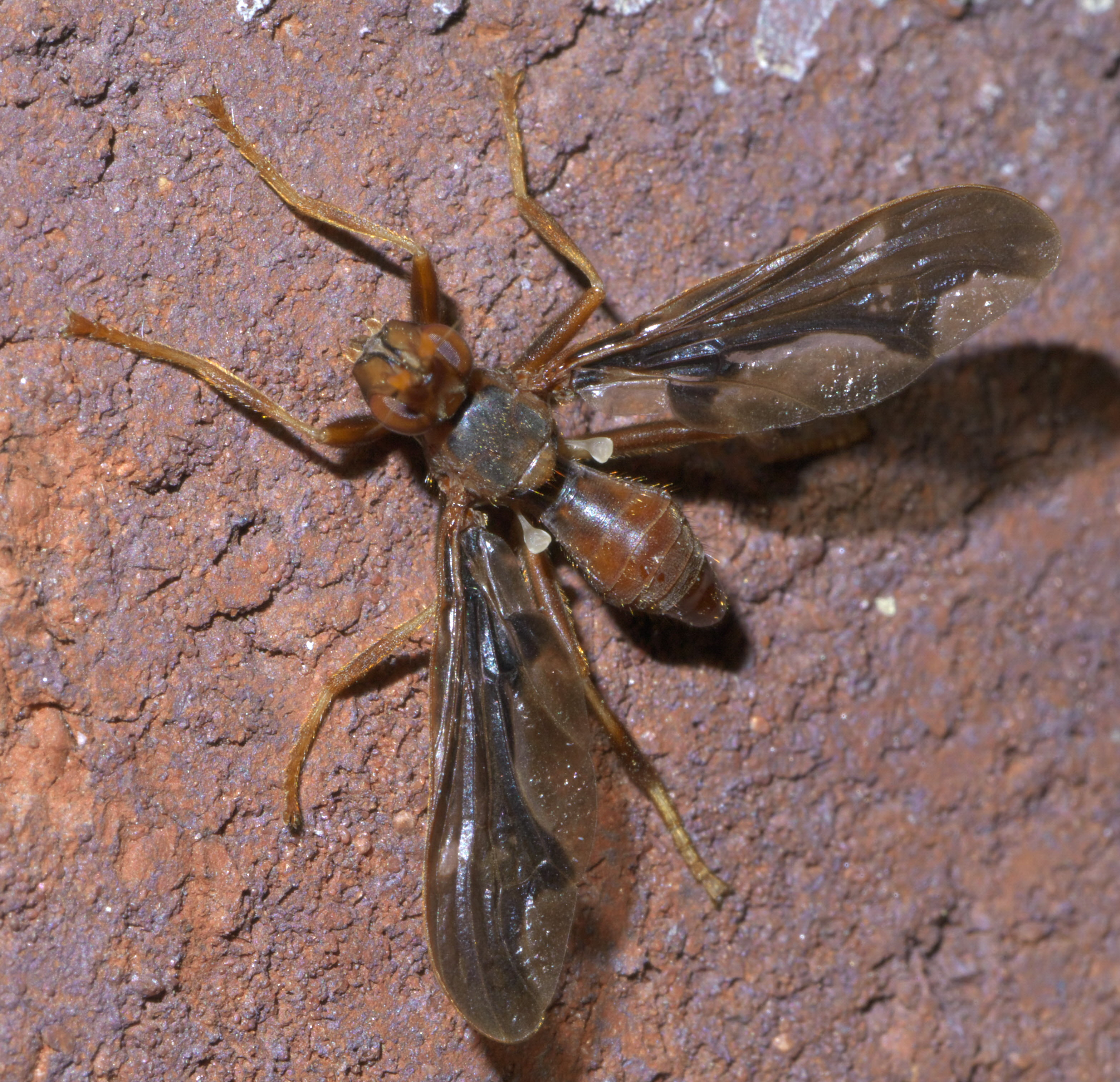 Pyrgota undata, Waved Light Fly, ID Confidence: 87